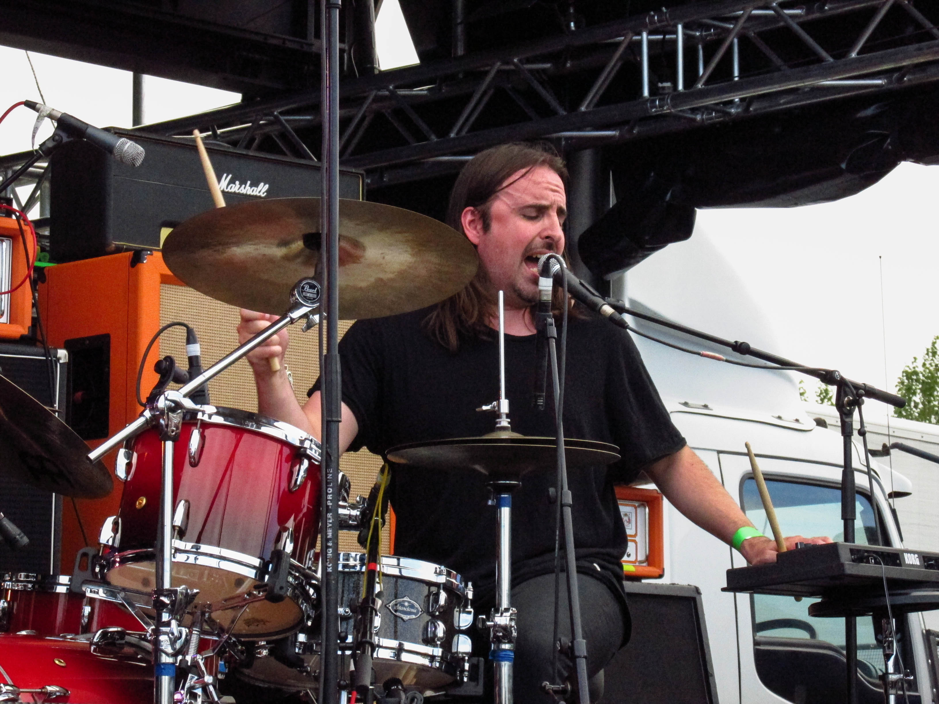 Shihad, The Datsuns, I Am Giant & Cairo Knife Fight - FVEY Tour. Matakana Country Park, January 3, 2015.